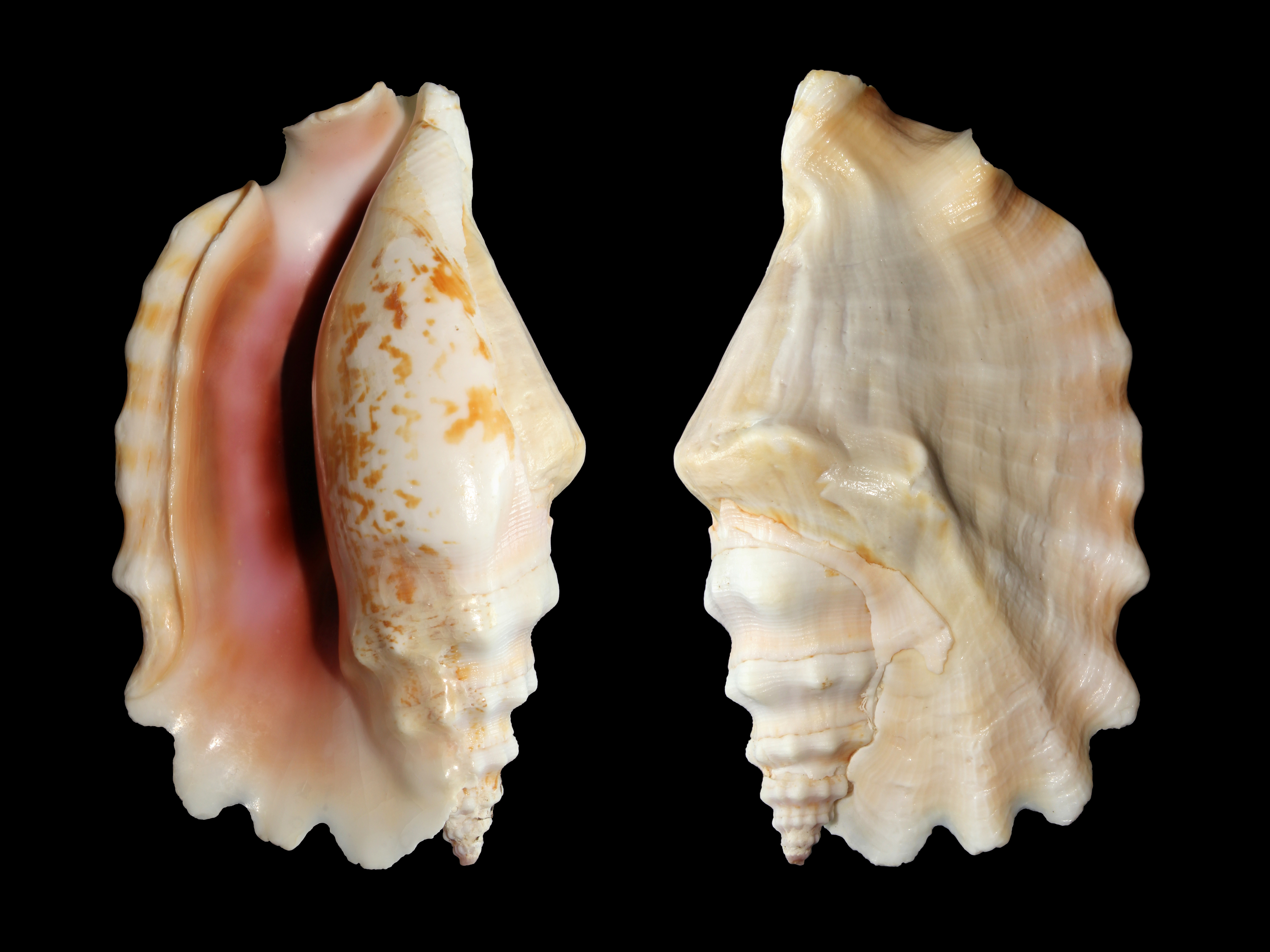 Laciniate conch (Sinustrombus sinuatus) - synonym : Strombus sinuatus). Shell length 83 mm.